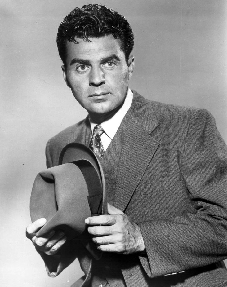 Publicity photo of Paul Picerni from a guest appearance on The Gale Storm Show.